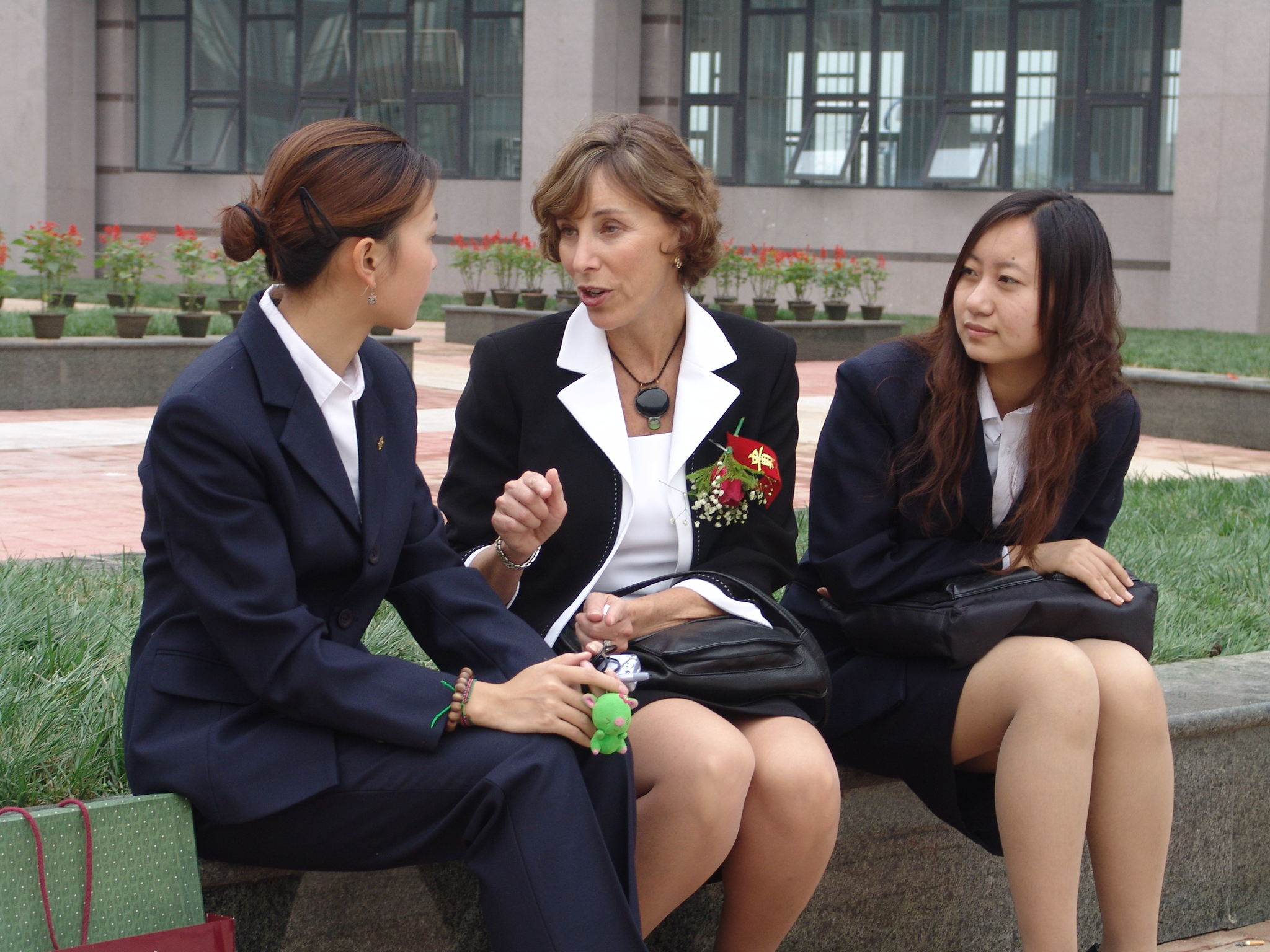 FIU School of Hospitality & Tourism Management Advisor at the FIU Tianjin Center